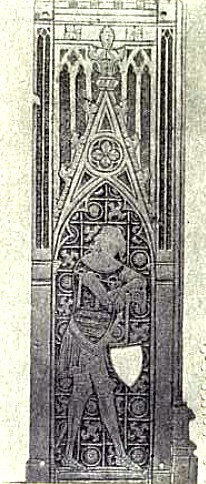 Roger Grey Lord Ruthyn